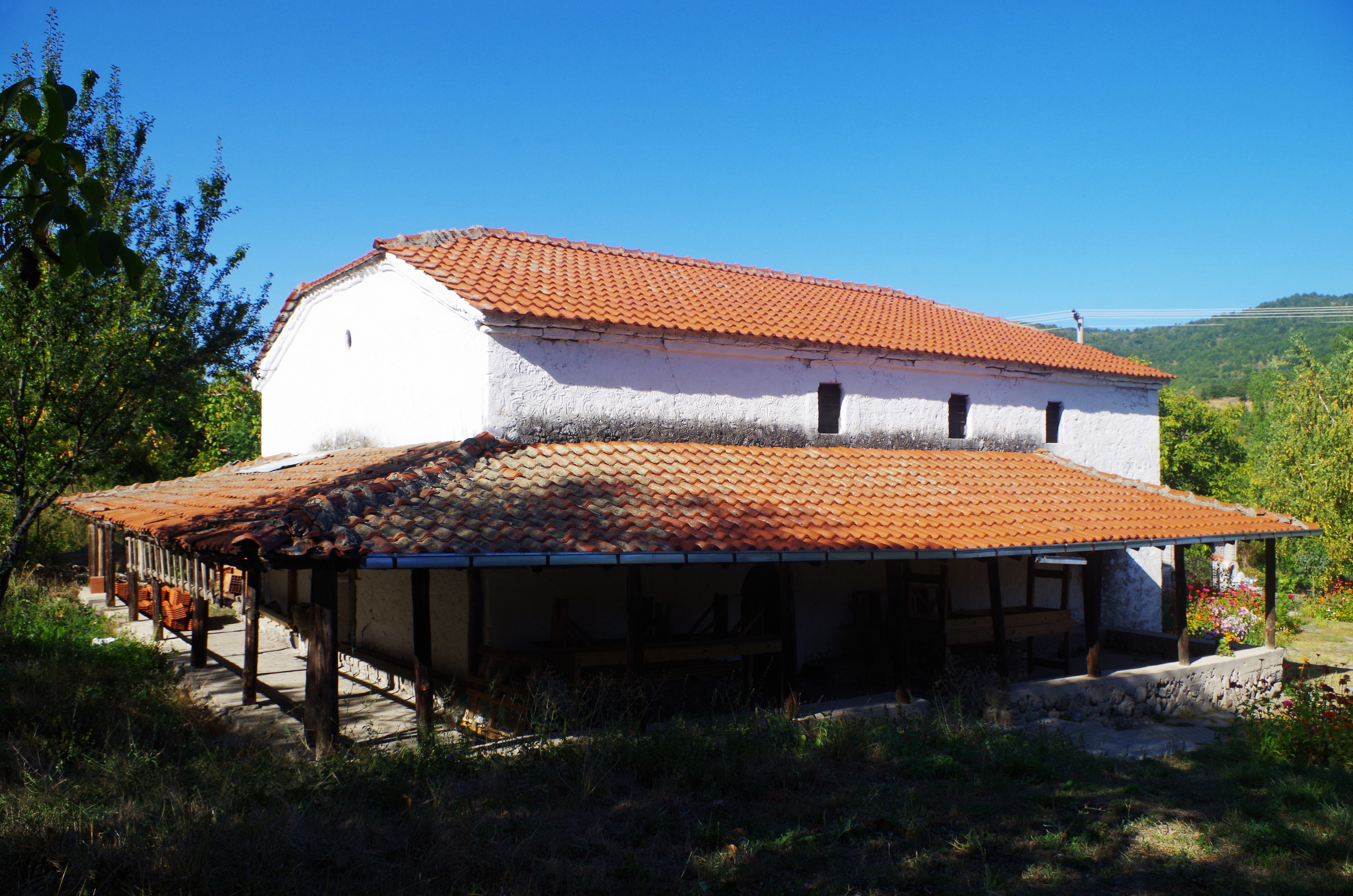 St. Athanasius Church in the village of Bohula